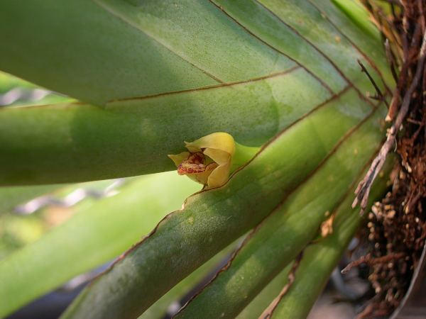 Heterotaxis valenzuelana